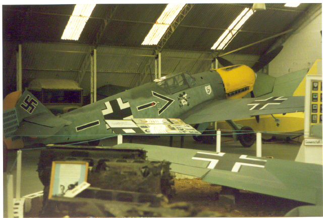 Hawkinge. A cramped, but interesting, display of material relating to the Battle of Britain.